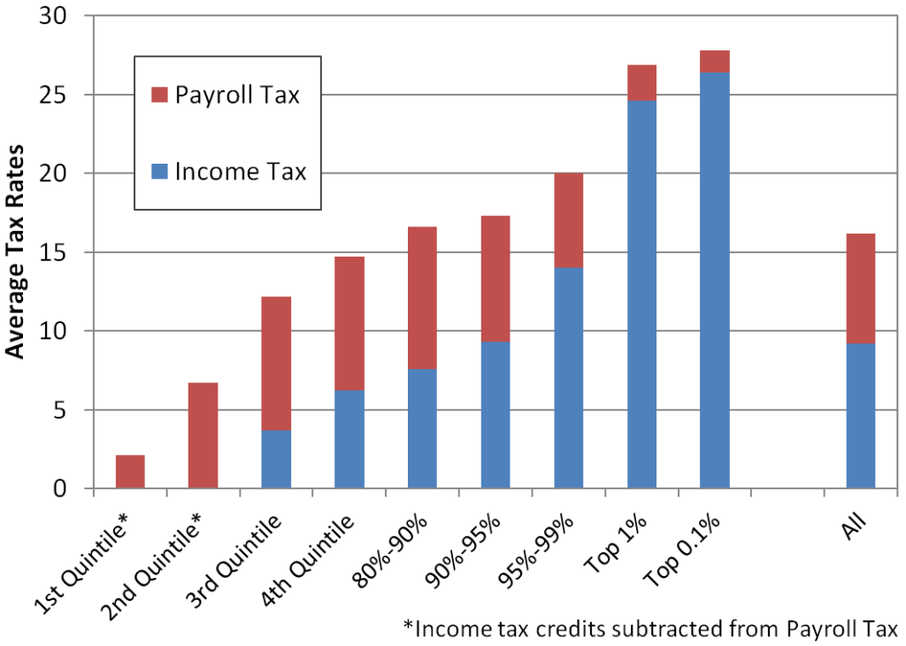 US federal tax rates by income percentile and component. Chart based on Tax Policy Center calculations in July 2013, for 2014 tax law. T13-0174 - Average Effective Federal Tax Rates by Filing Status; by Expanded Cash Income Percentile, 2014. Tax Policy Center (July 25, 2013). Retrieved on 20 May 2014.